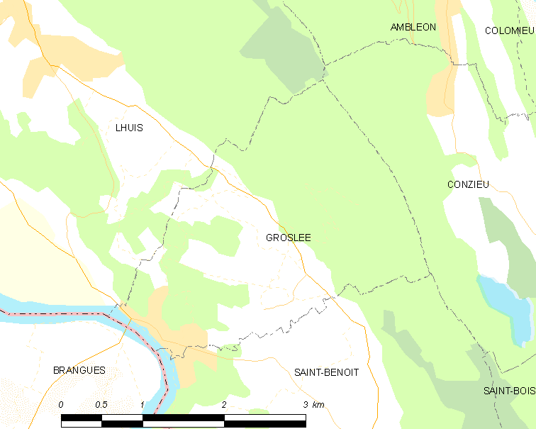 Map of French commune: Groslée Map commune FR insee code 01182.png